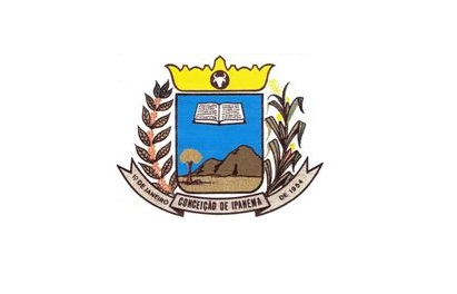 Flags of the city of Conceição de Ipanema, Minas Gerais, Brazil.